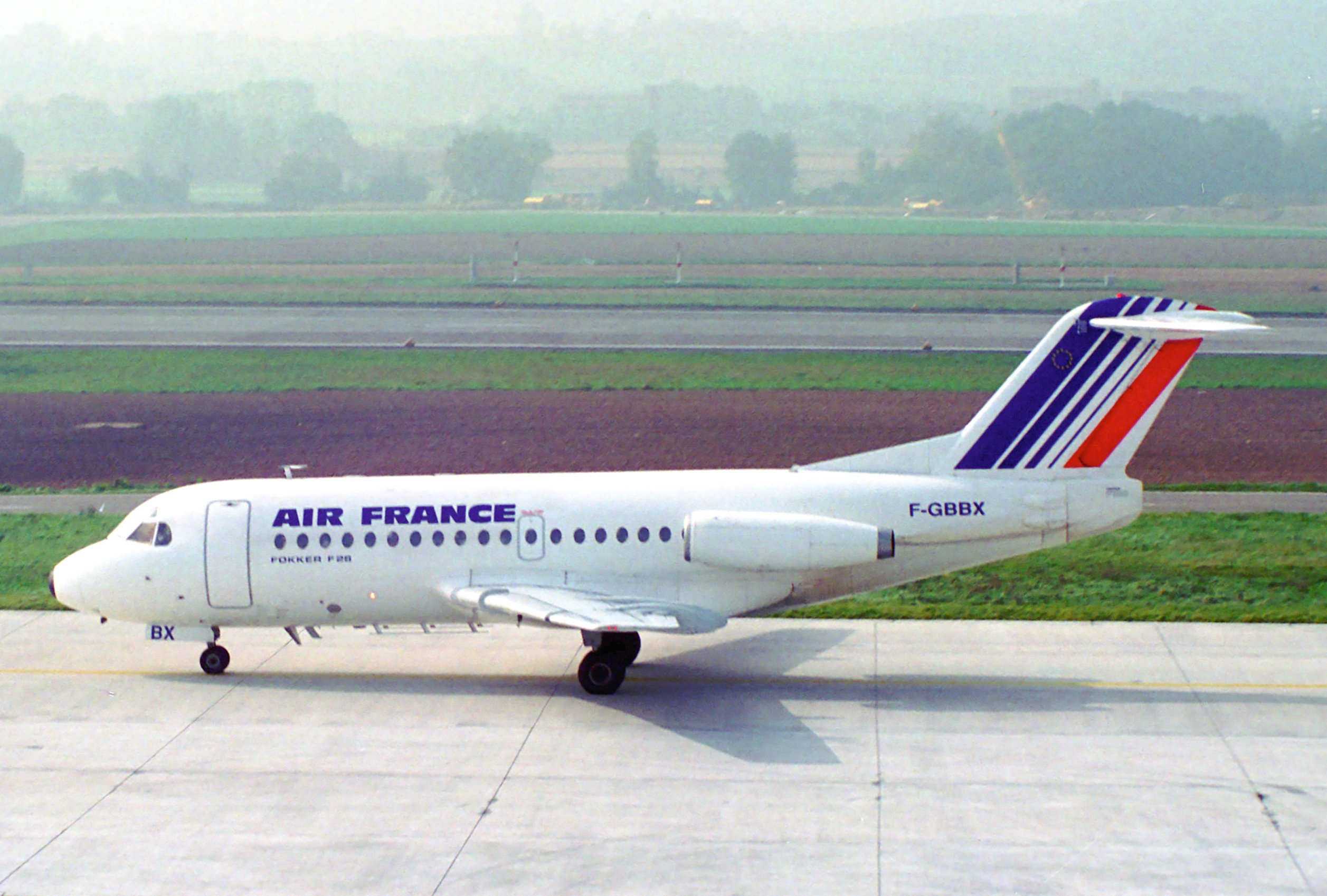 First flight: February 18, 1971...